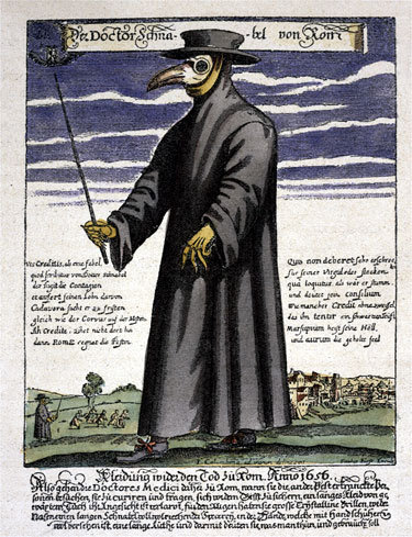 A plague doctor.